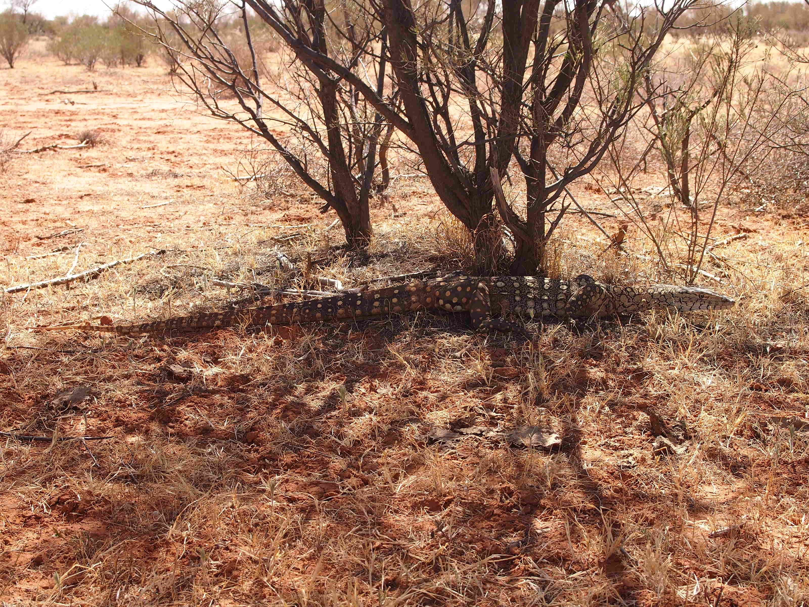 Varanus giganteus